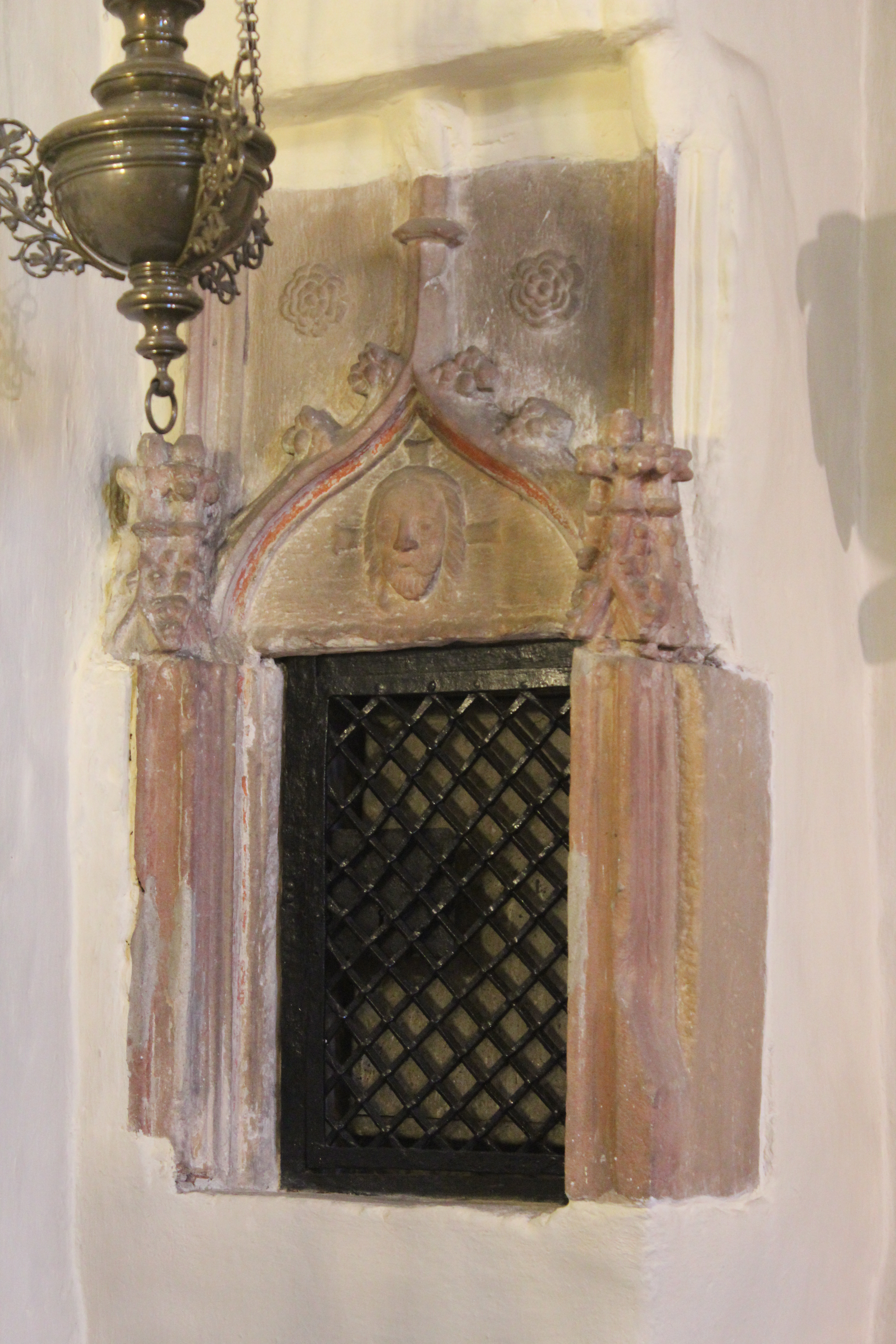 St. Andrew the Apostle Church in Bielany Wrocławskie (Lower Silesian voidenship) church tabernacle